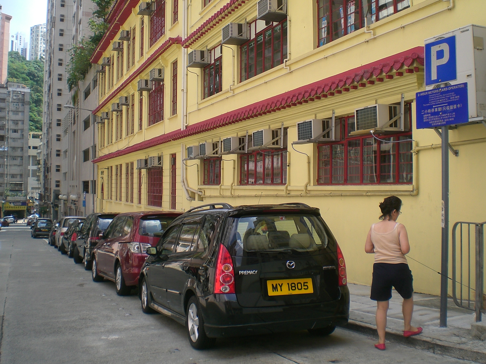 跑馬地聚文街馬自達